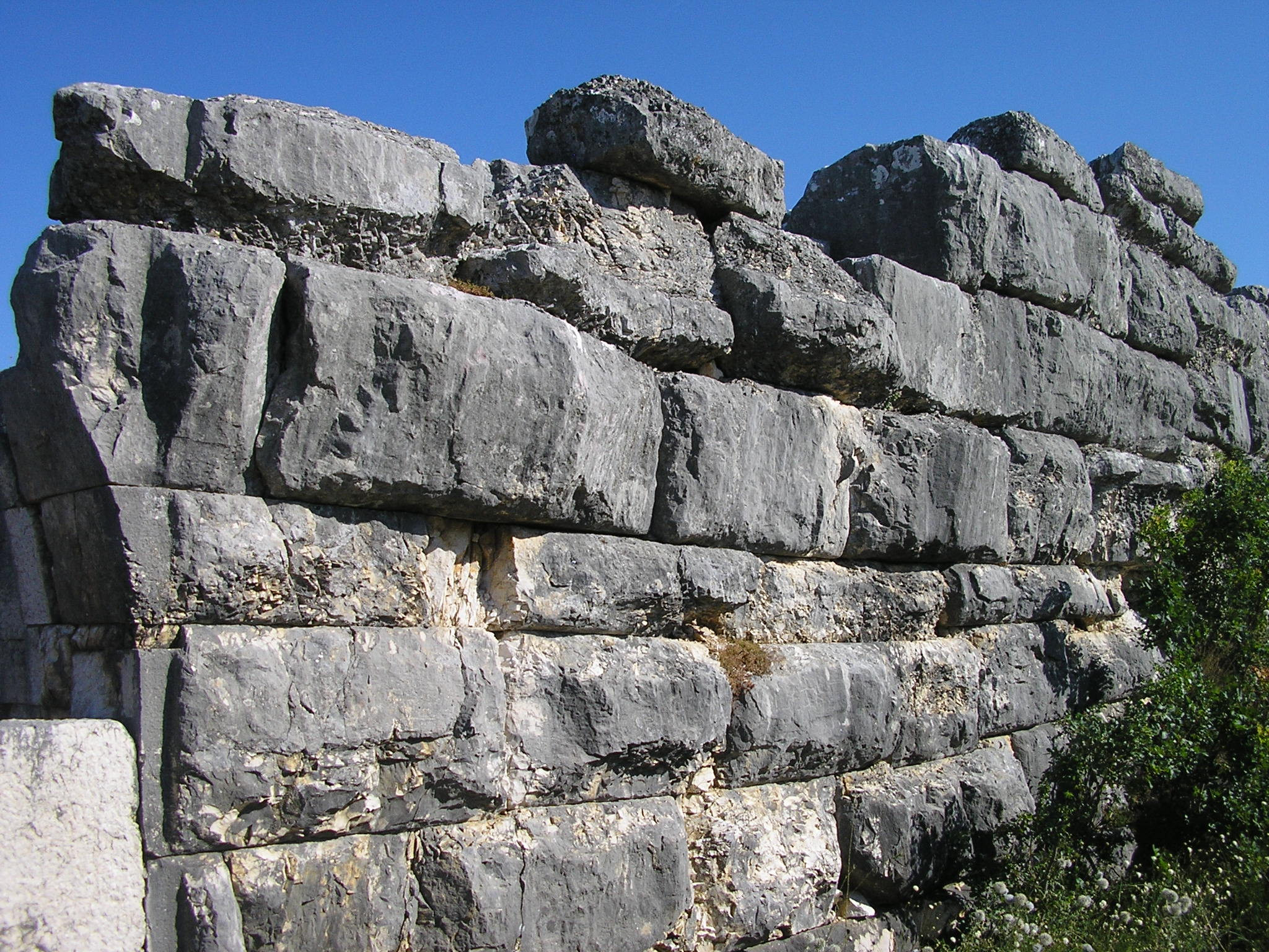 Daorson near Stolac